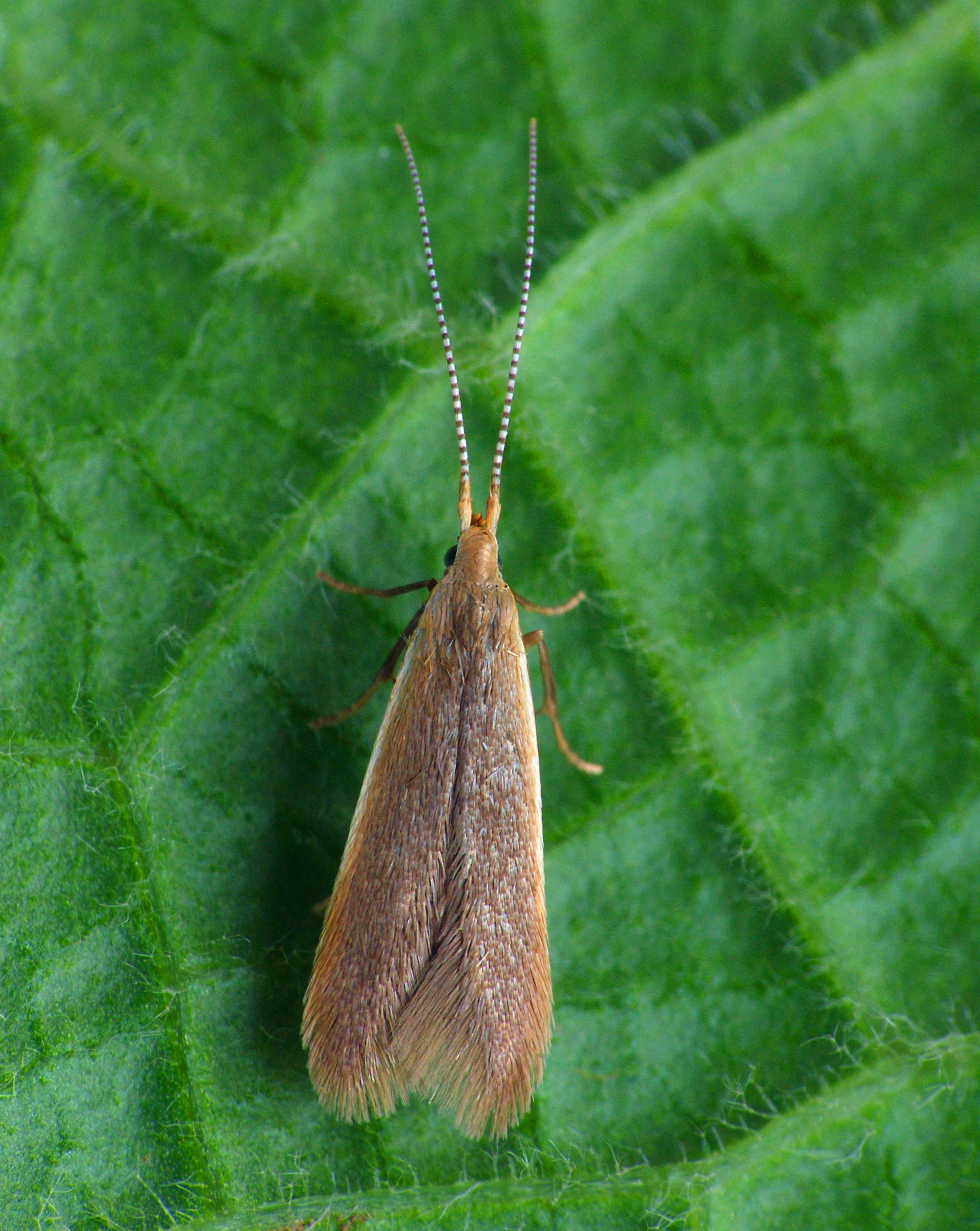 Ex larva found on elm (Ulmus), late April. Gen Det